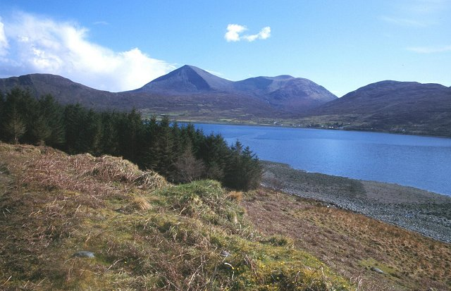 Loch na Cairidh. Sea loch separating Skye from Scalpay. The Scalpay shore is intermittantly forested and carries a rough track, over on Skye is the busy A87 beneath Broadford's Beinn na Cailleach